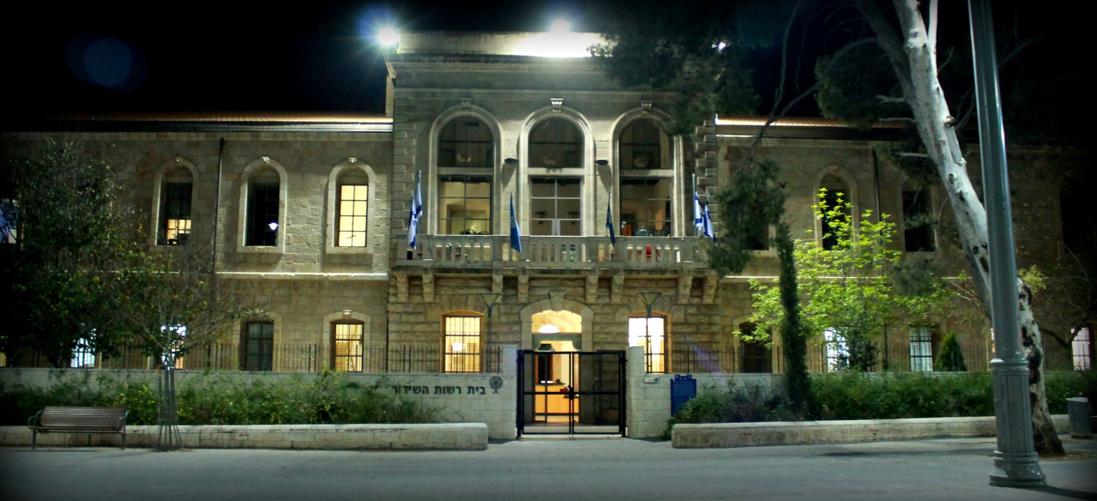 בית רשות השידור במבנה שערי צדק הישן, ירושלים